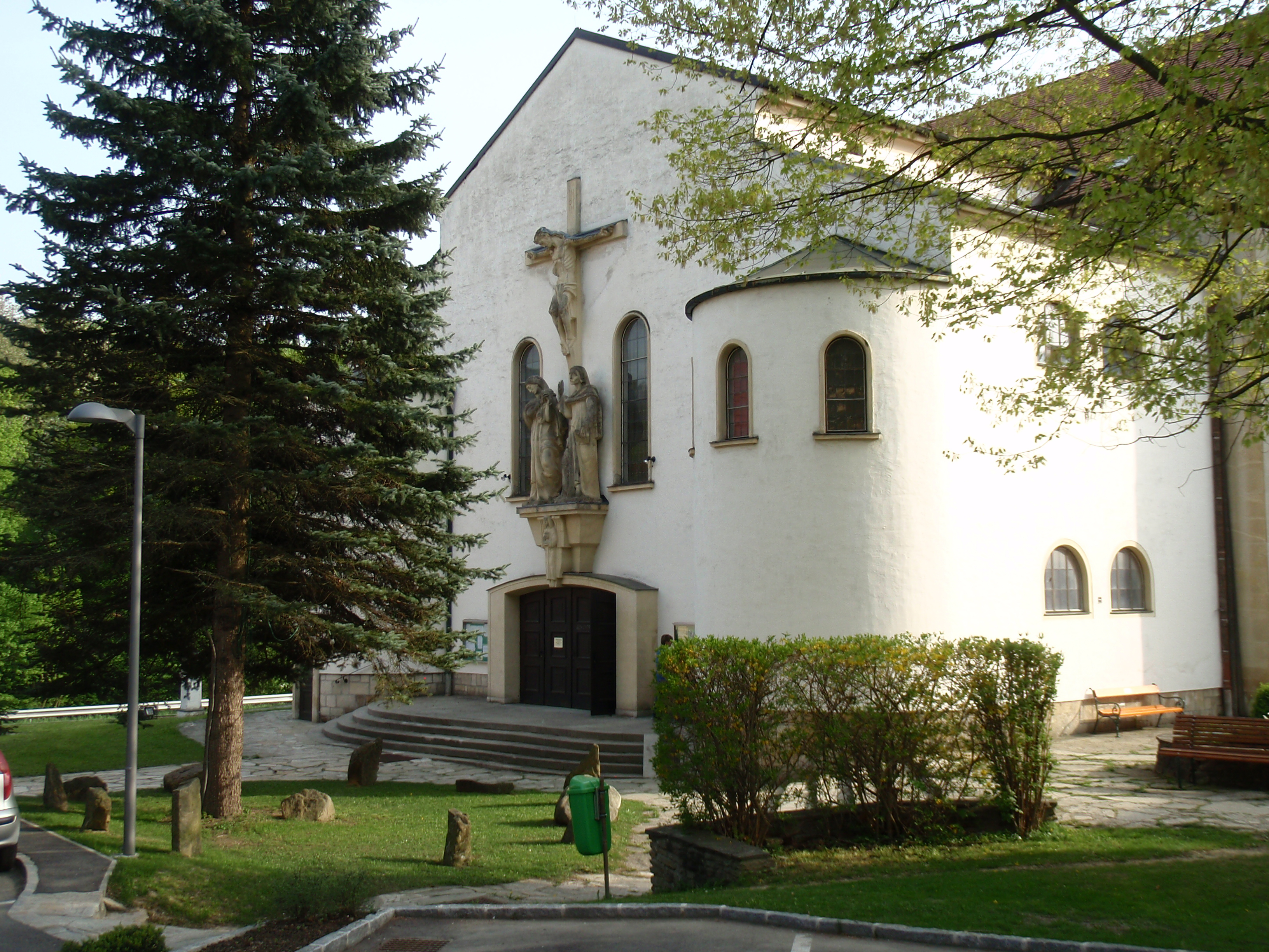 Main portal of the Roman Catholic Heart of Jesus Peace Church in Eichgraben named "Duomo of Vienna Woods" with crucifixion ensemble from sandstone of Adolf Treberer-Treberspurg.